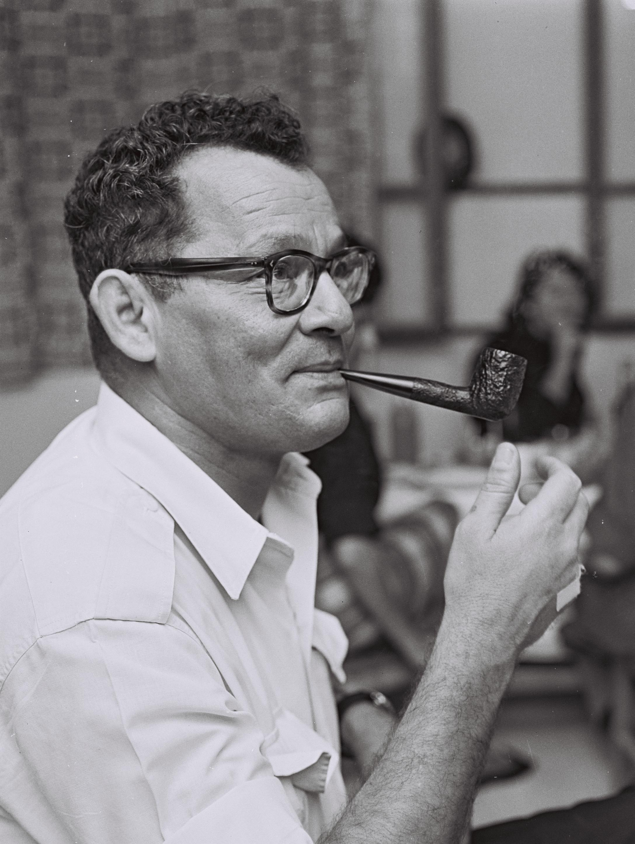 Portrait of rav aluf Haim Laskov, director of the port authorities.